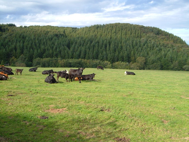 Burley Wood. Hidden in the woodland are various earthworks, including remnants of a motte and bailey castle and a settlement. Taken from the lane north of Watergate Cross.